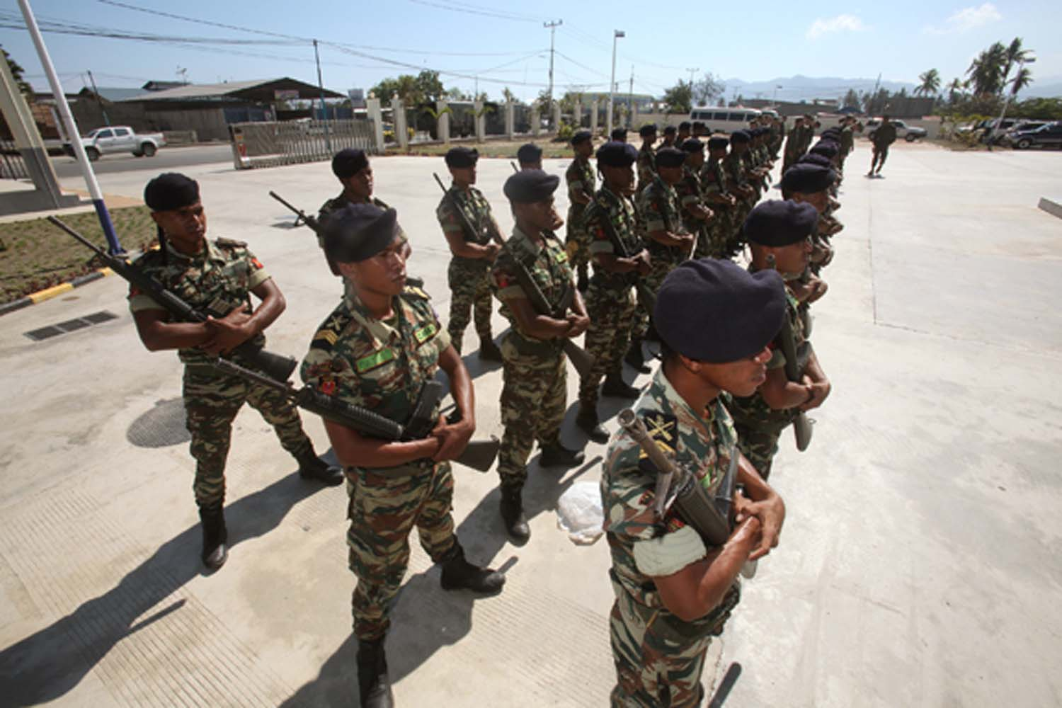 East Timor - Soldiers with the Timor-Leste Defense Force stand in formation during the opening ceremony of Exercise Crocodilo 2012 in Timor-Leste Oct. 11. Crocodilo 12 aims to promote interoperability and cooperation between the participating forces, providing the opportunity to exchange knowledge and learn from each other, as well as to establish personal and professional relationships. Marines and sailors of the 15th MEU and the Peleliu Amphibious Ready Group will conduct military training with the Timor-Leste Defense Forces and assist in humanitarian efforts to improve the medical and dental health of the local population.